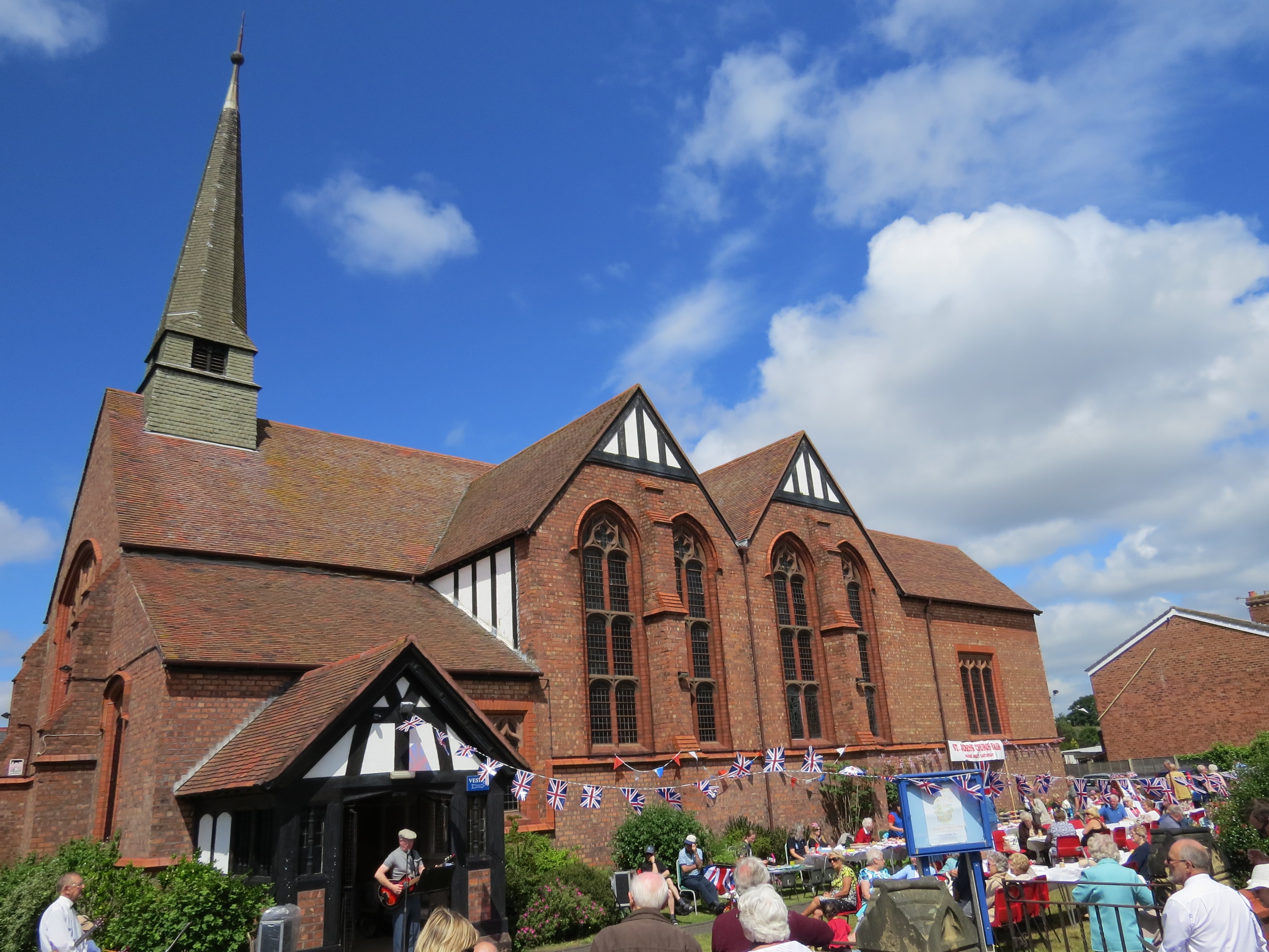 Celebrations for the Queen's 90th Birthday, held on 18th June 2016 at St John's, Birkdale